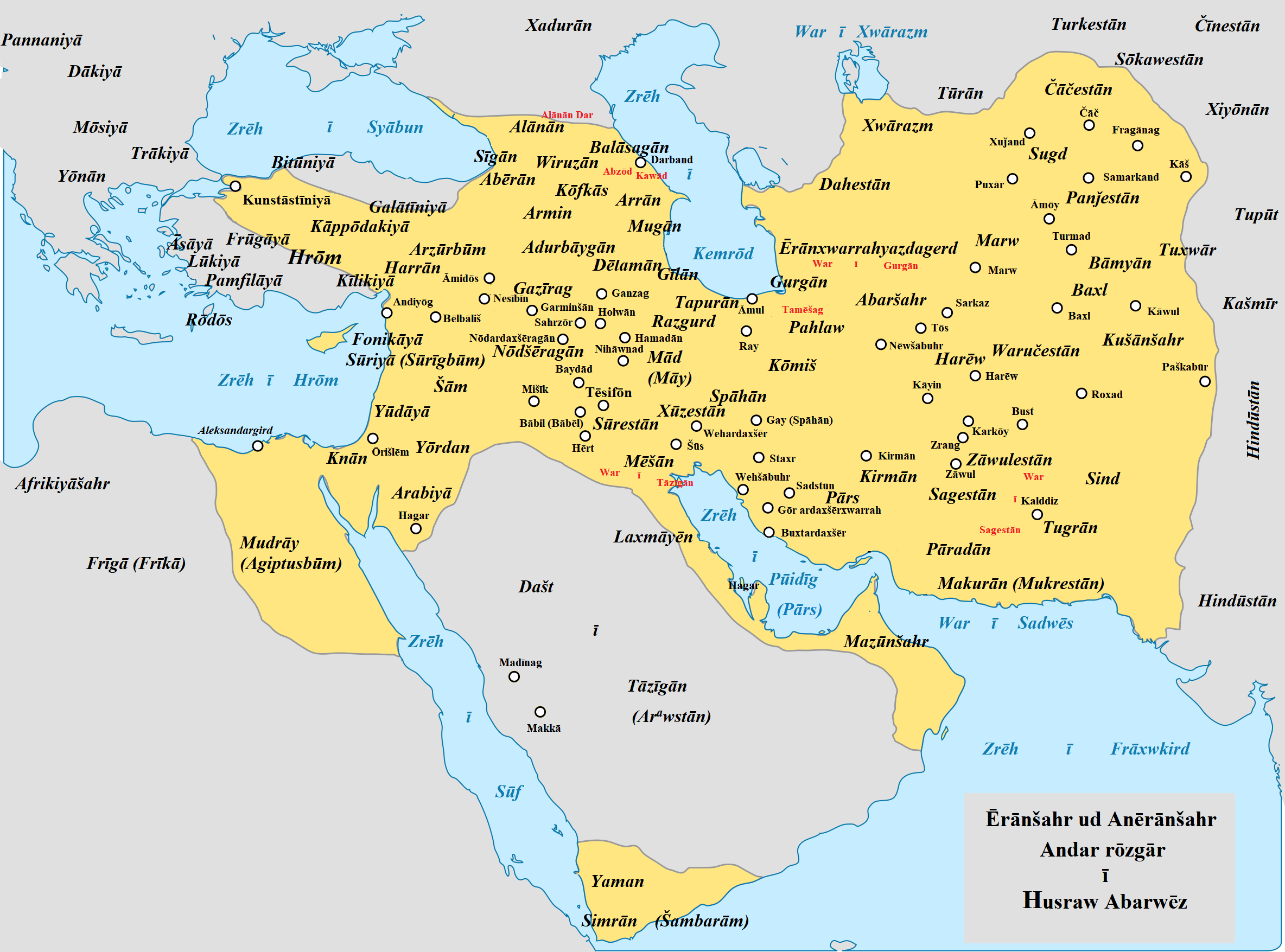 the correct names of lands and sees in Middle Persian and Parthian and Sogdian